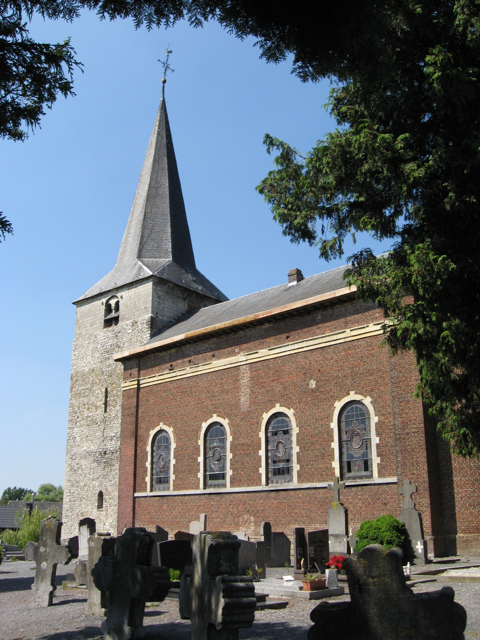 Church of Saint John the Baptiser (1840) in Kuttekoven, Borgloon, Limburg, Belgium